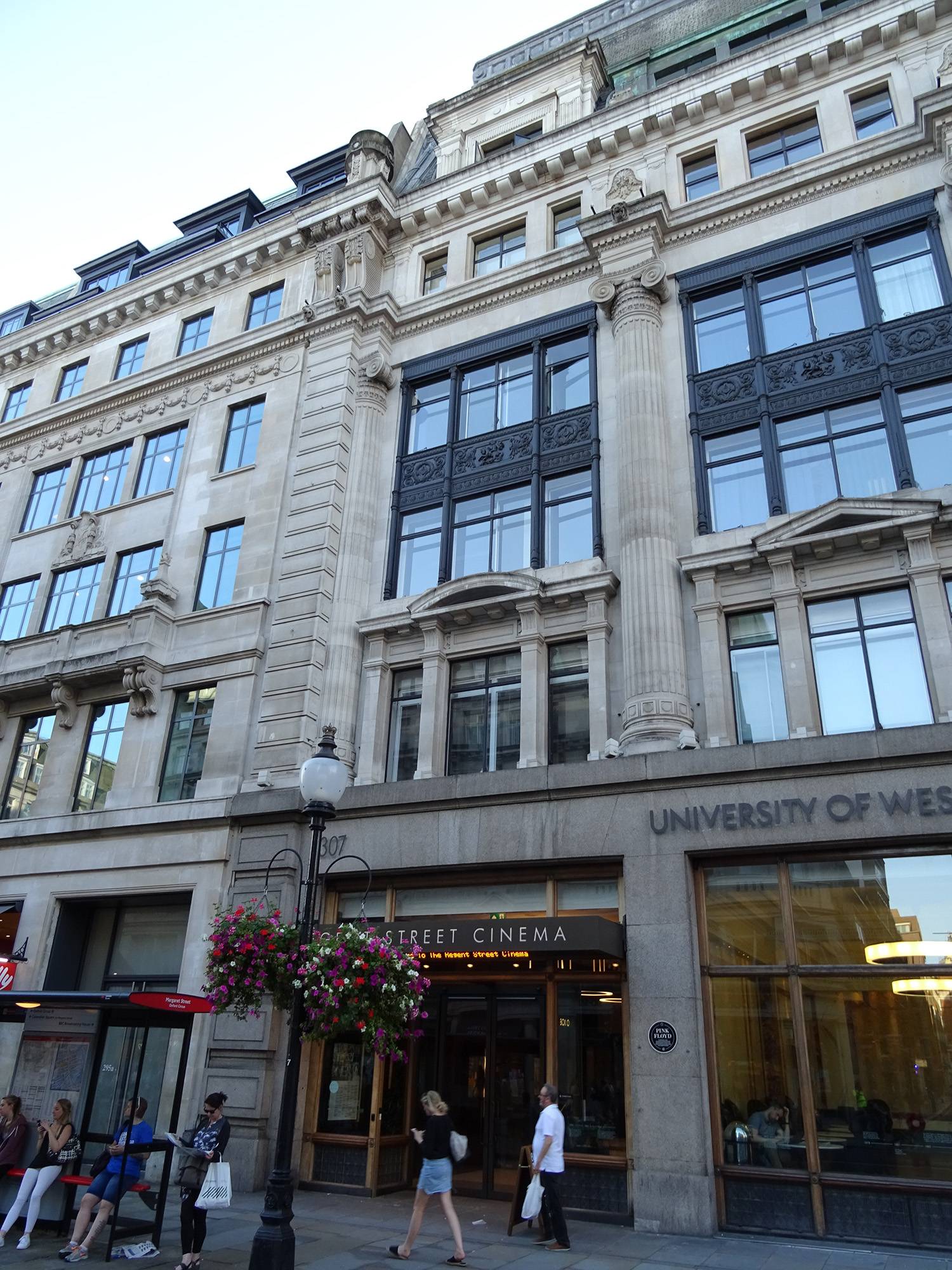 University of Westminster - 35 Marylebone Road London NW1 5LS. Pink Floyd. Between 1962-1966, Nick Mason, Roger Waters and Richard Wright studied at the Regent Street Polytechnic where they formed the band.